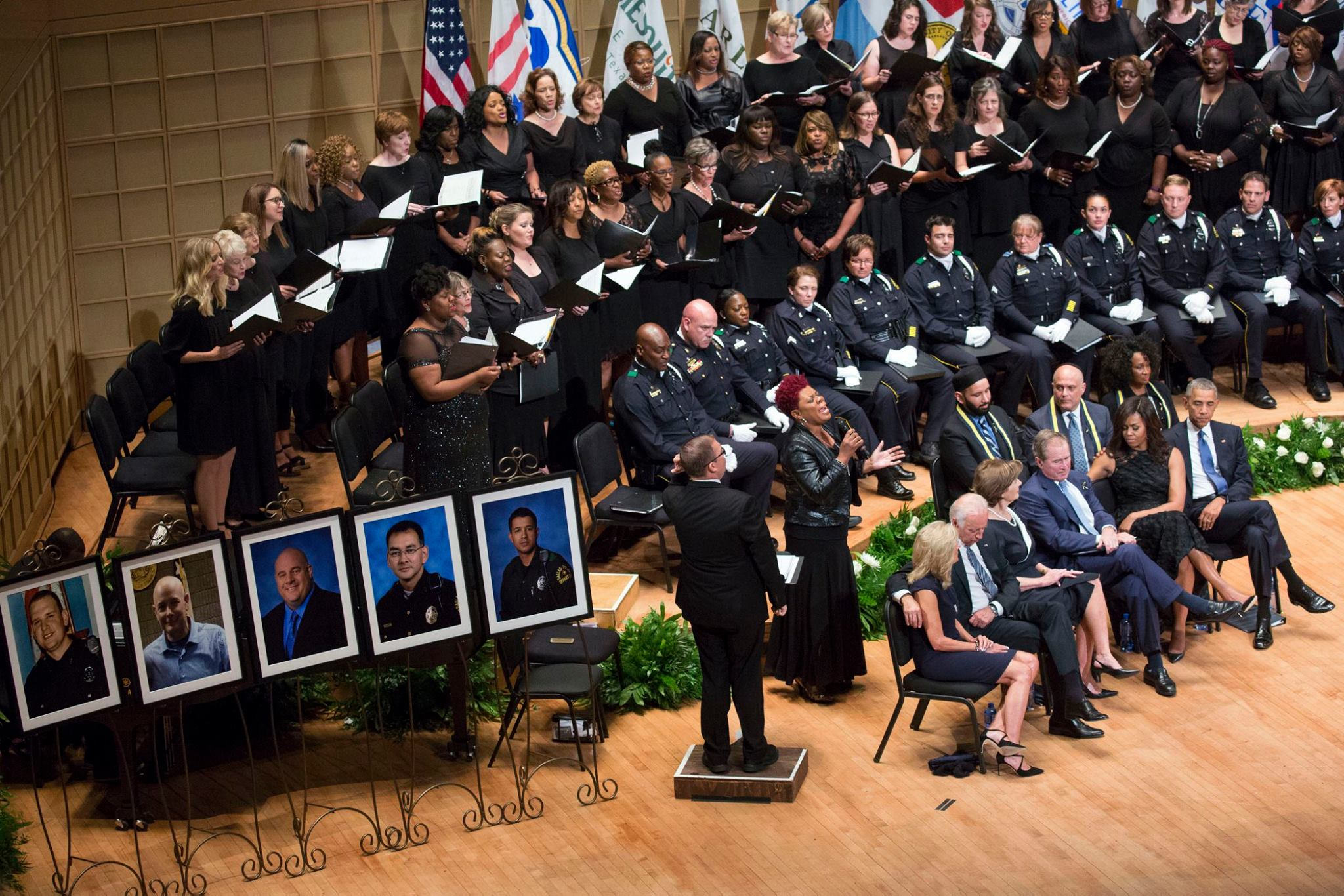 "That’s what I take away from the lives of these outstanding men. The pain we feel may not soon pass, but my faith tells me that they did not die in vain. I believe our sorrow can make us a better country. I believe our righteous anger can be transformed into more justice and more peace. Weeping may endure for a night, but I’m convinced joy comes in the morning.” —President Obama at the memorial service for the fallen officers of the Dallas Police Department